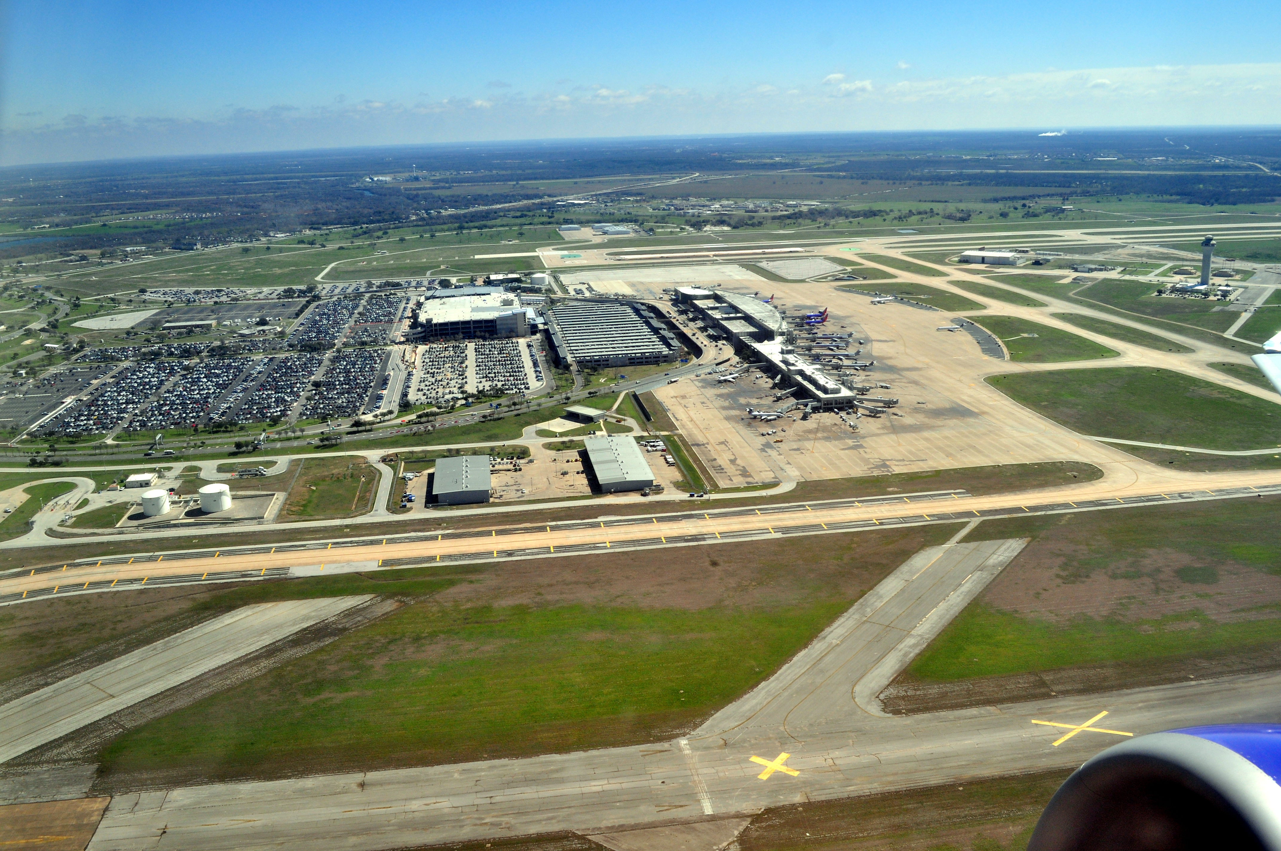 Aerial view of Austin-Bergstrom International Airport, Austin, Texas, U.S.